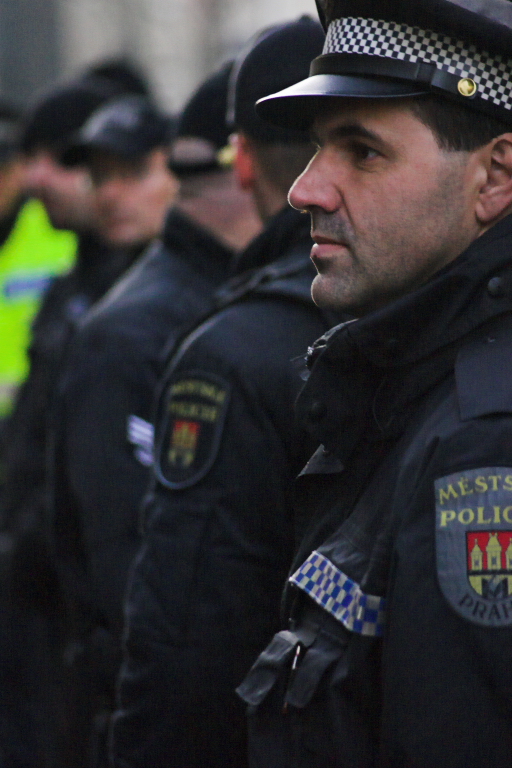 Prague city guard policeman.